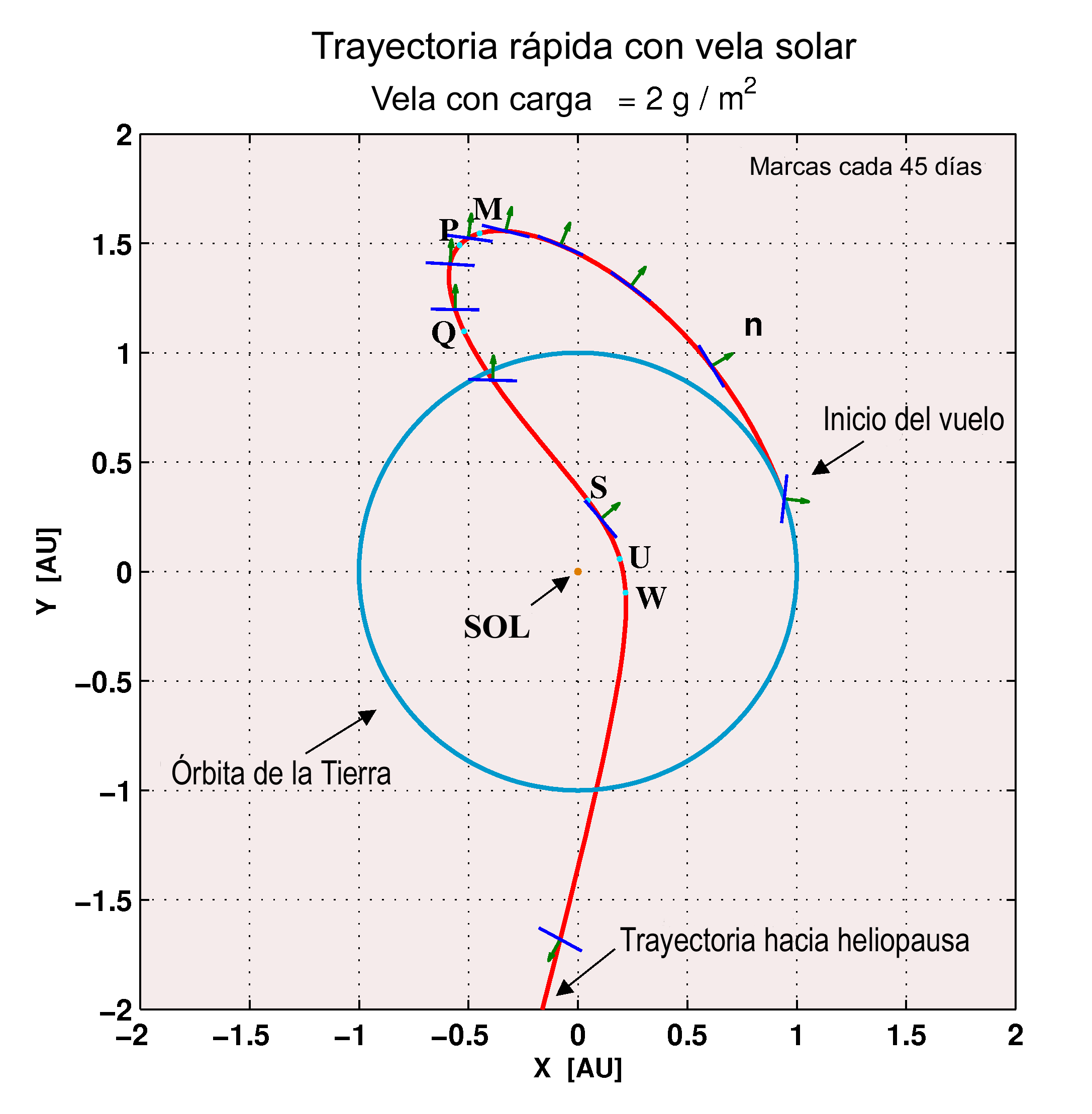 Optimal solar sailing route.